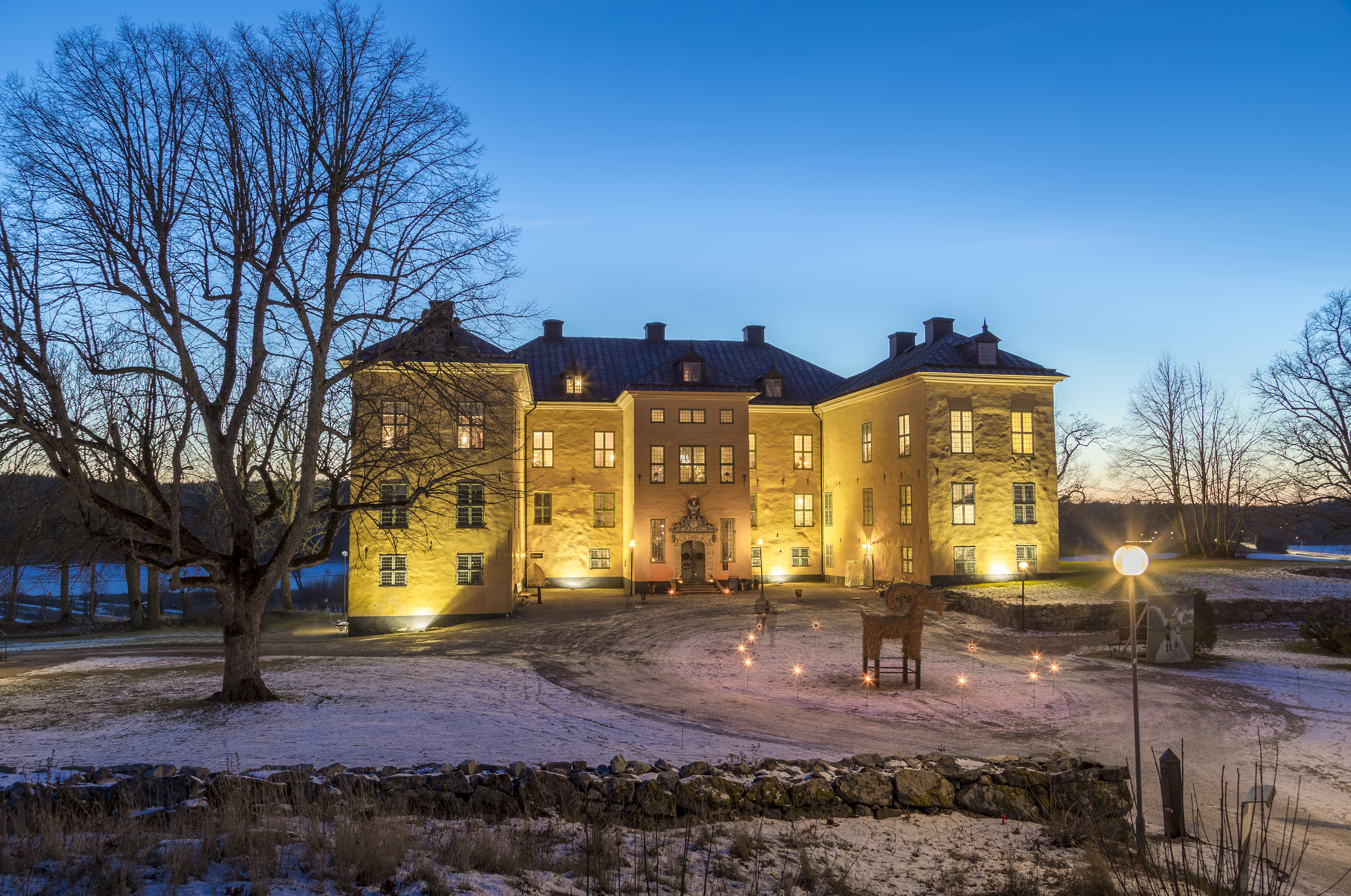 Wenngarn Palace north of Sigtuna close to Stockholm Sweden